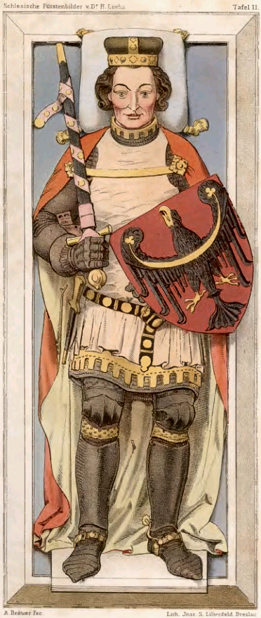 Henry VI duke of Silesia-Breslau † 1335